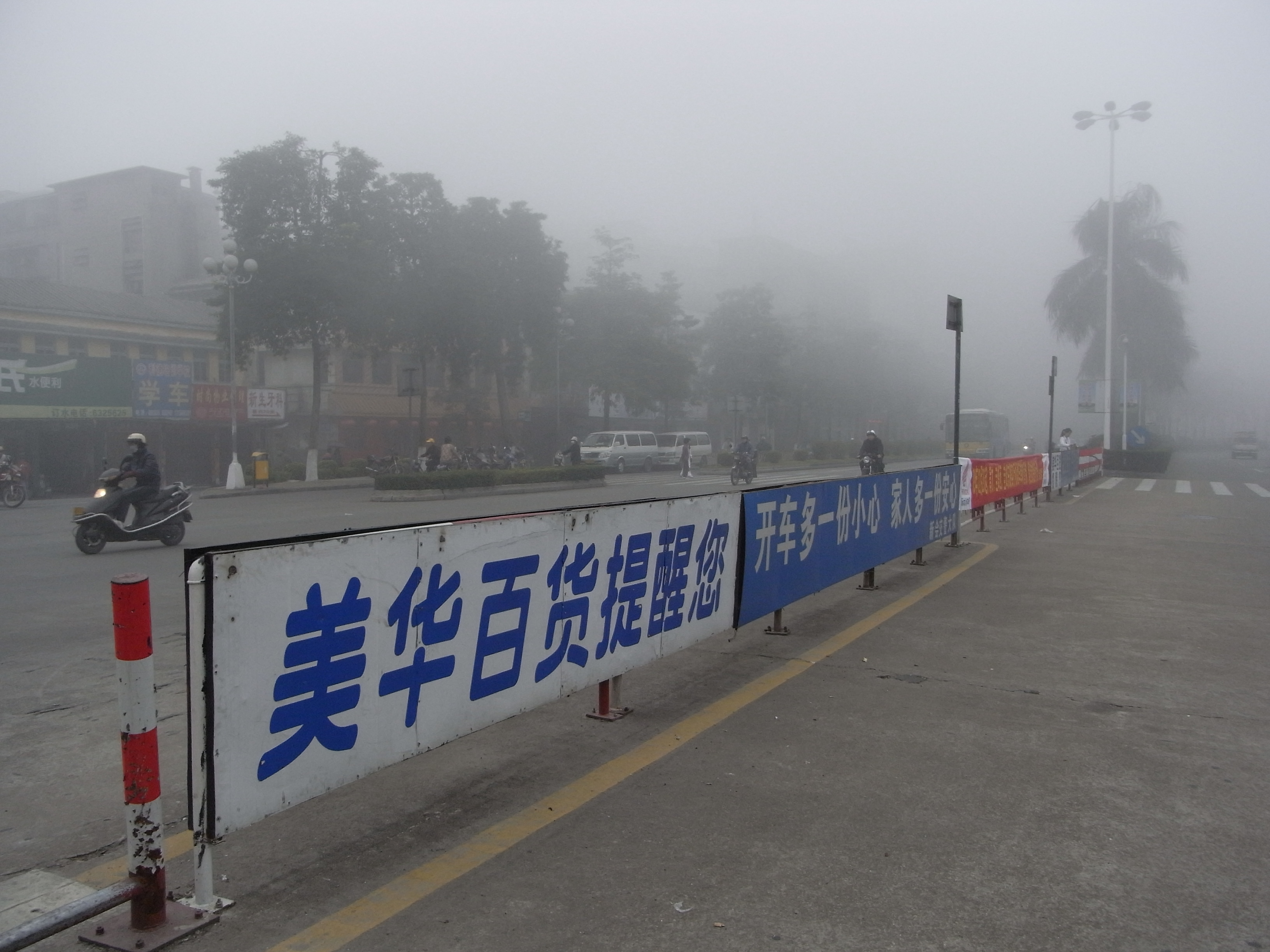 新會會城 早晨的zh:霧 岡州大道中